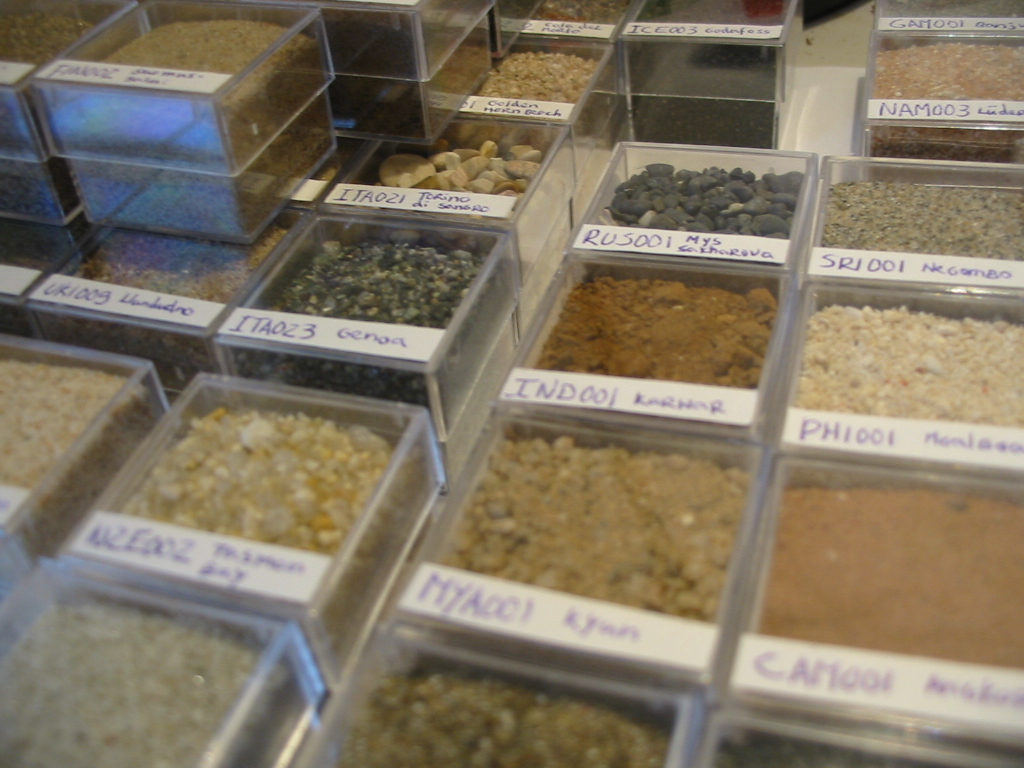 Part of a sandcollection.